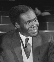 Cropped version of Bundesarchiv Bild 183-76054-0003, Leipzig, Kenia-Tag, Gerald Götting.jpg